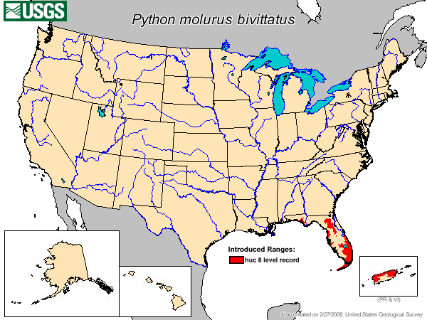 2007 introduced ranges in the USA of Python molurus bivittatus.